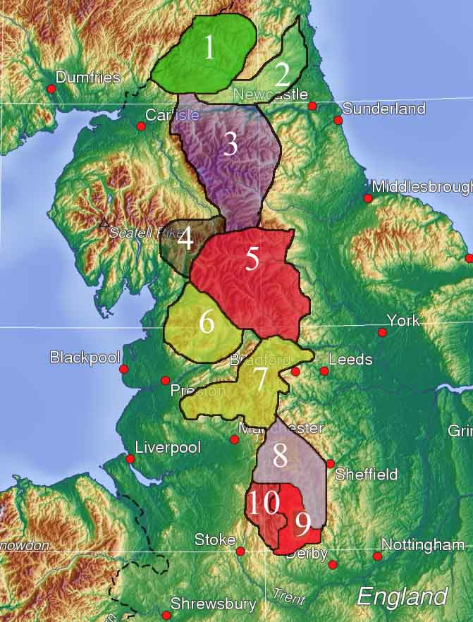 Harkey Loger